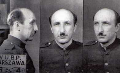 Wiktor Stryjewski (1916-1951) – soldier of Armia Krajowa and anticommunist partisan movement after WW II. Official mug shot after arrest.